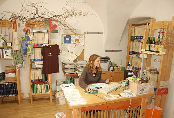 Interior Ecological Institute Veronica